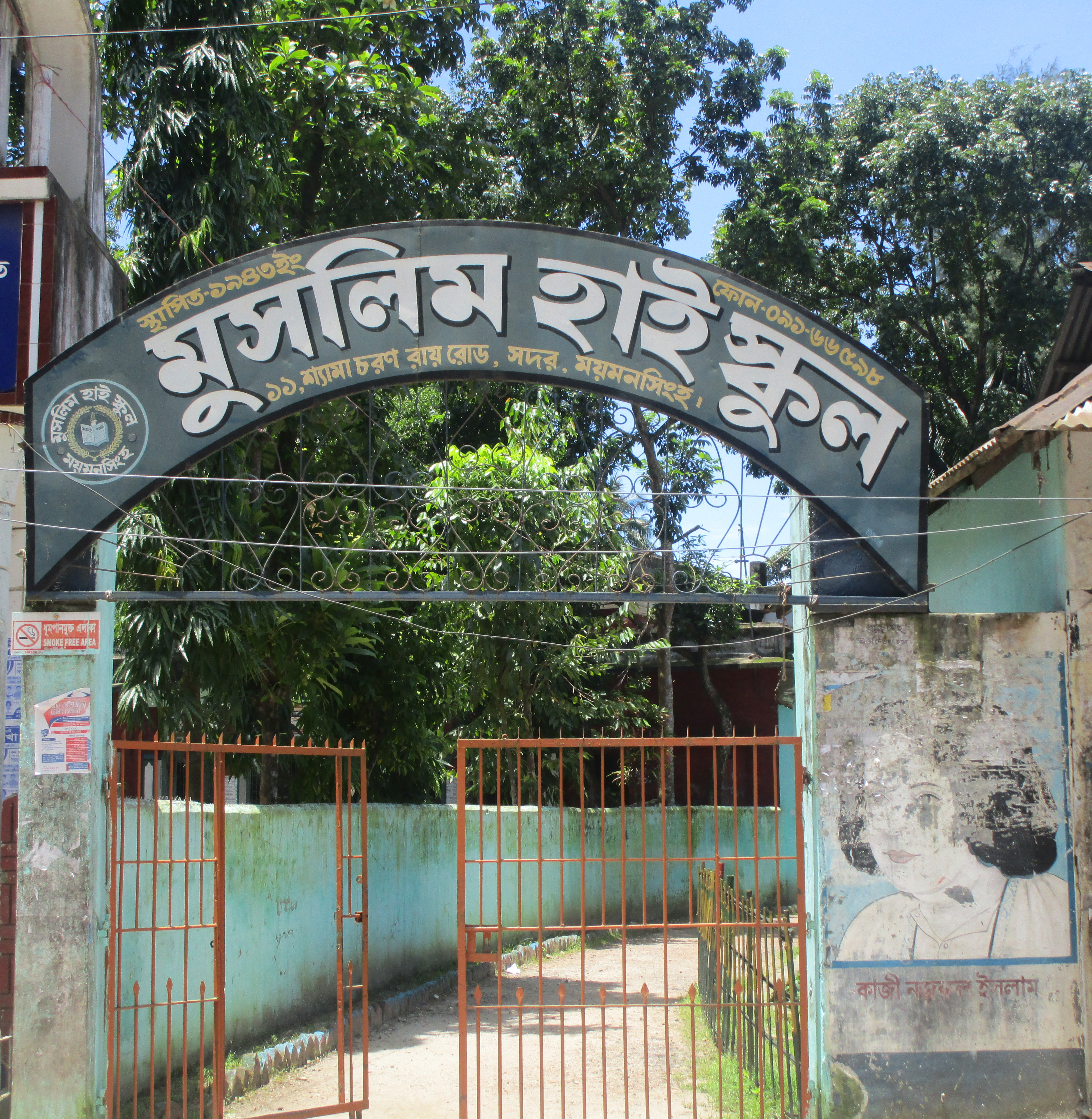 The main gate of Muslim High school.